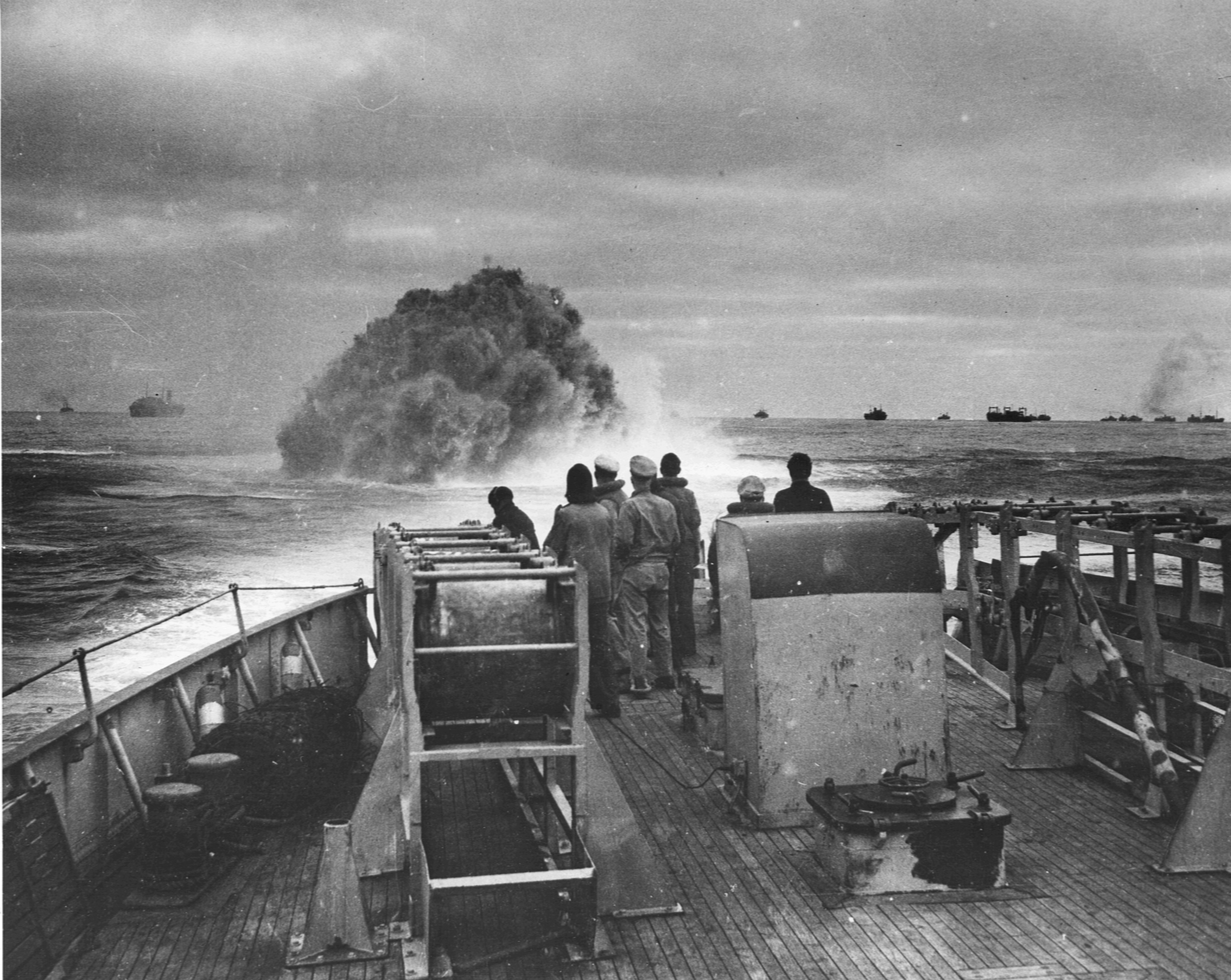 Coast Guardsmen on the deck of the U.S. Coast Guard Cutter Spencer (WPG-36) watch the explosion of a depth charge which drove the German submarine U-175 to the surface, 17 April 1943.